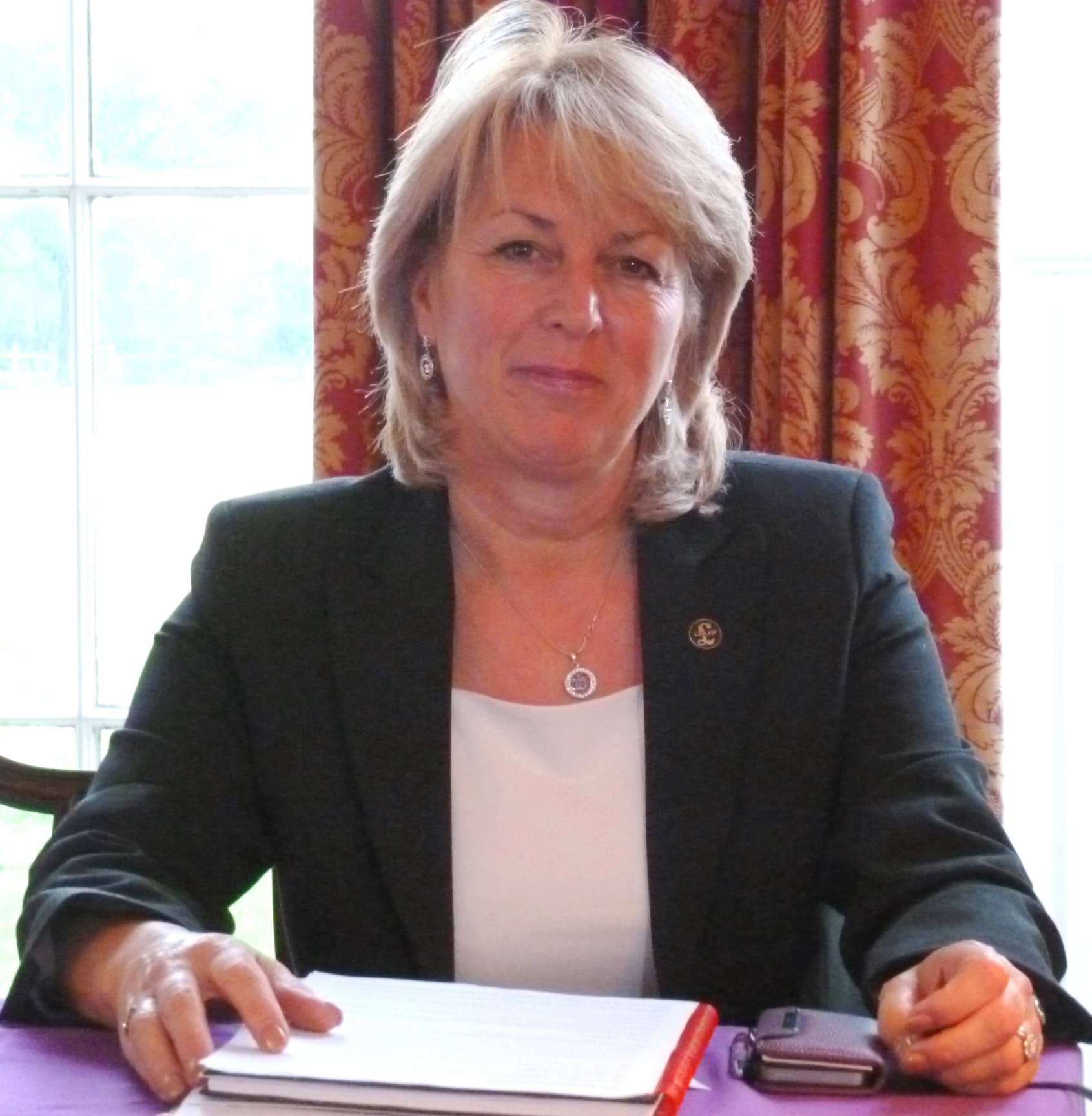 Jill Seymour UKIP MEP